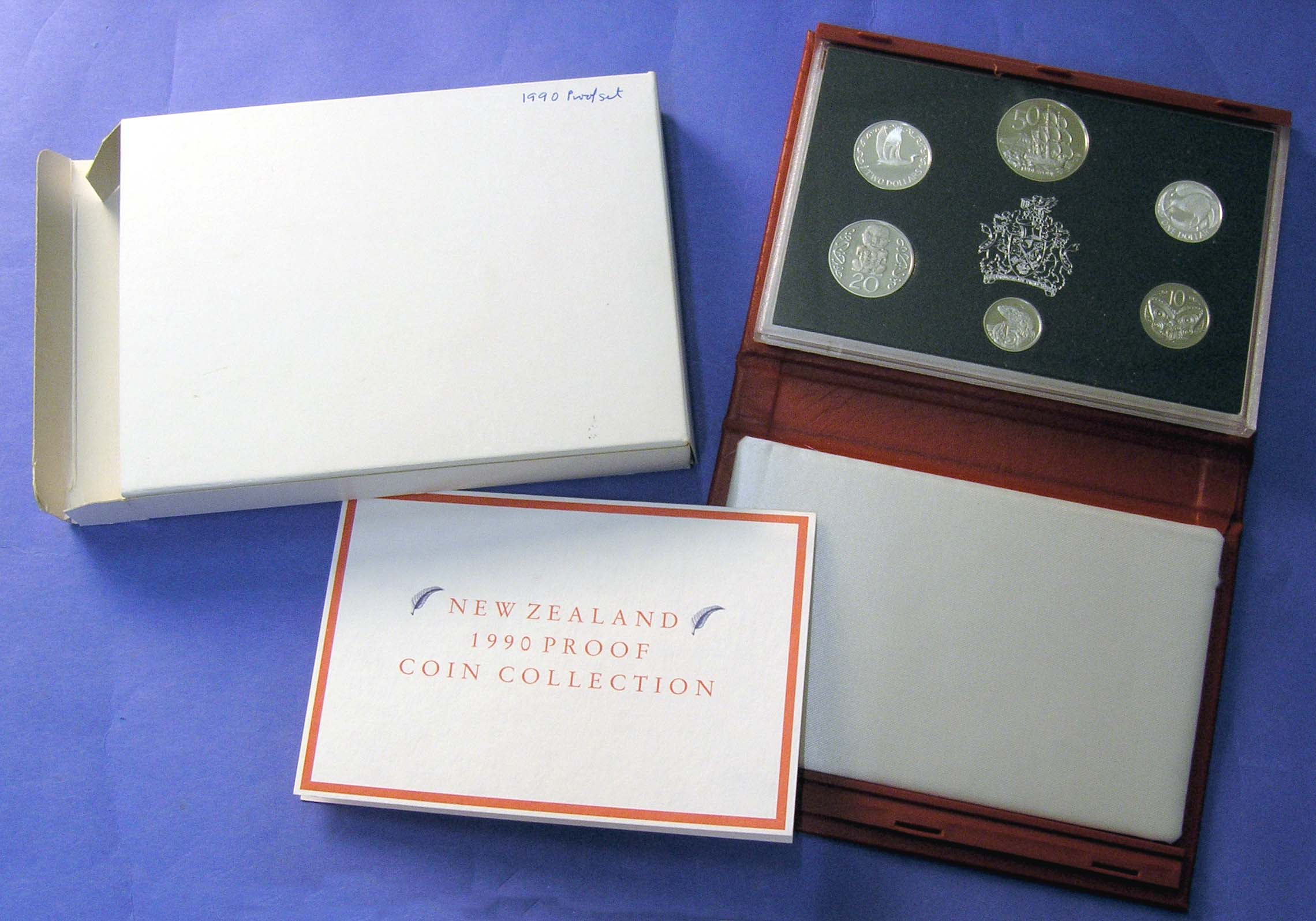 Reserve Bank of New Zealand 1990 Proof Set